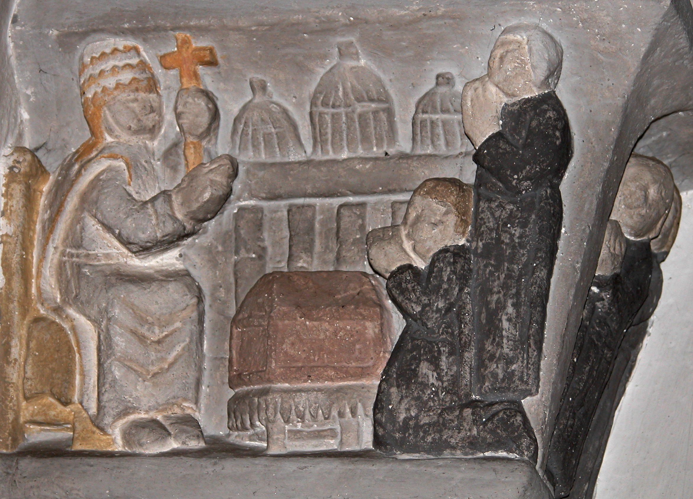 Mary-Help-Chapel - Kapitell (Beatification of Peter Friedhofen)